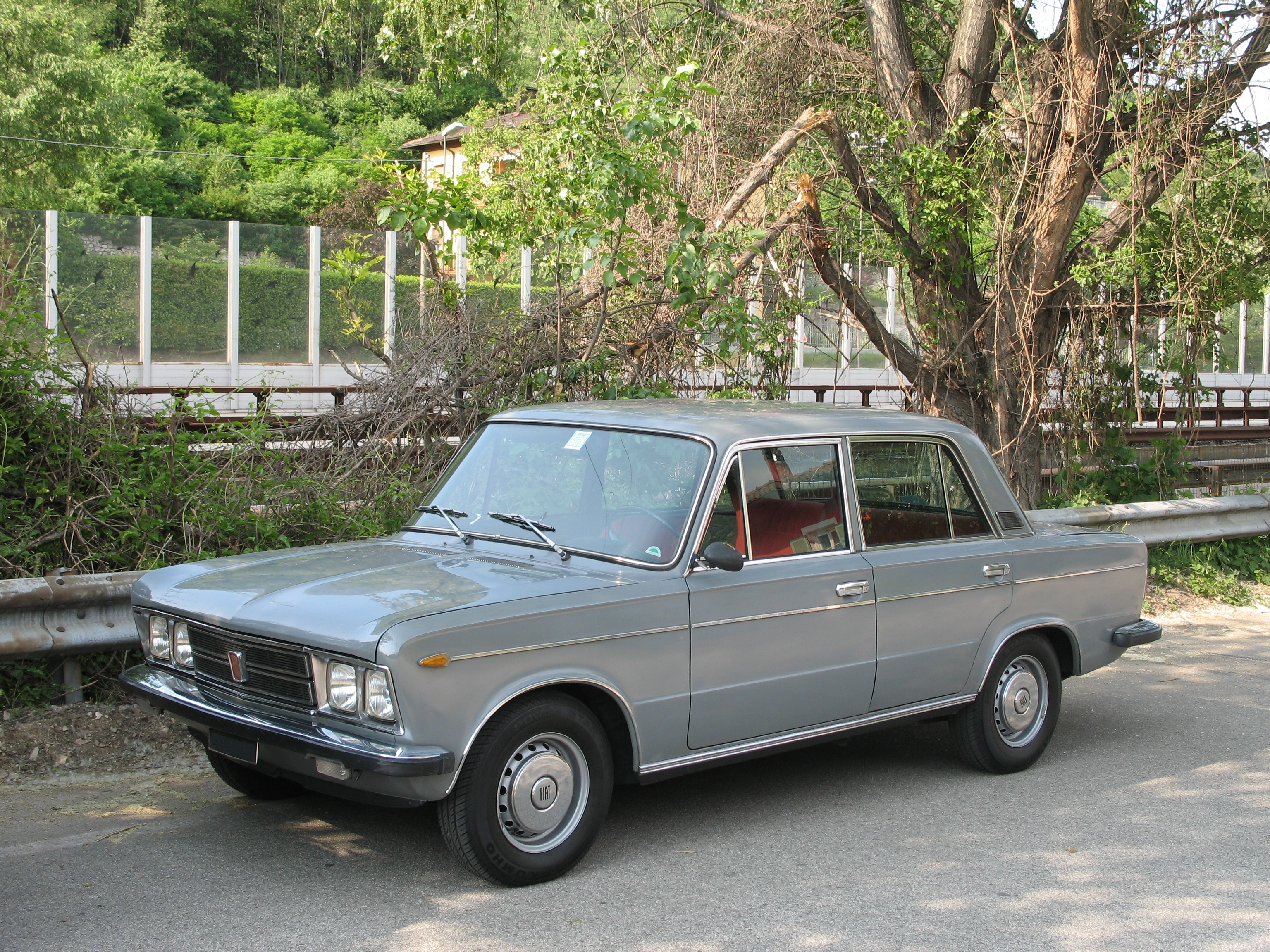 A Fiat 125